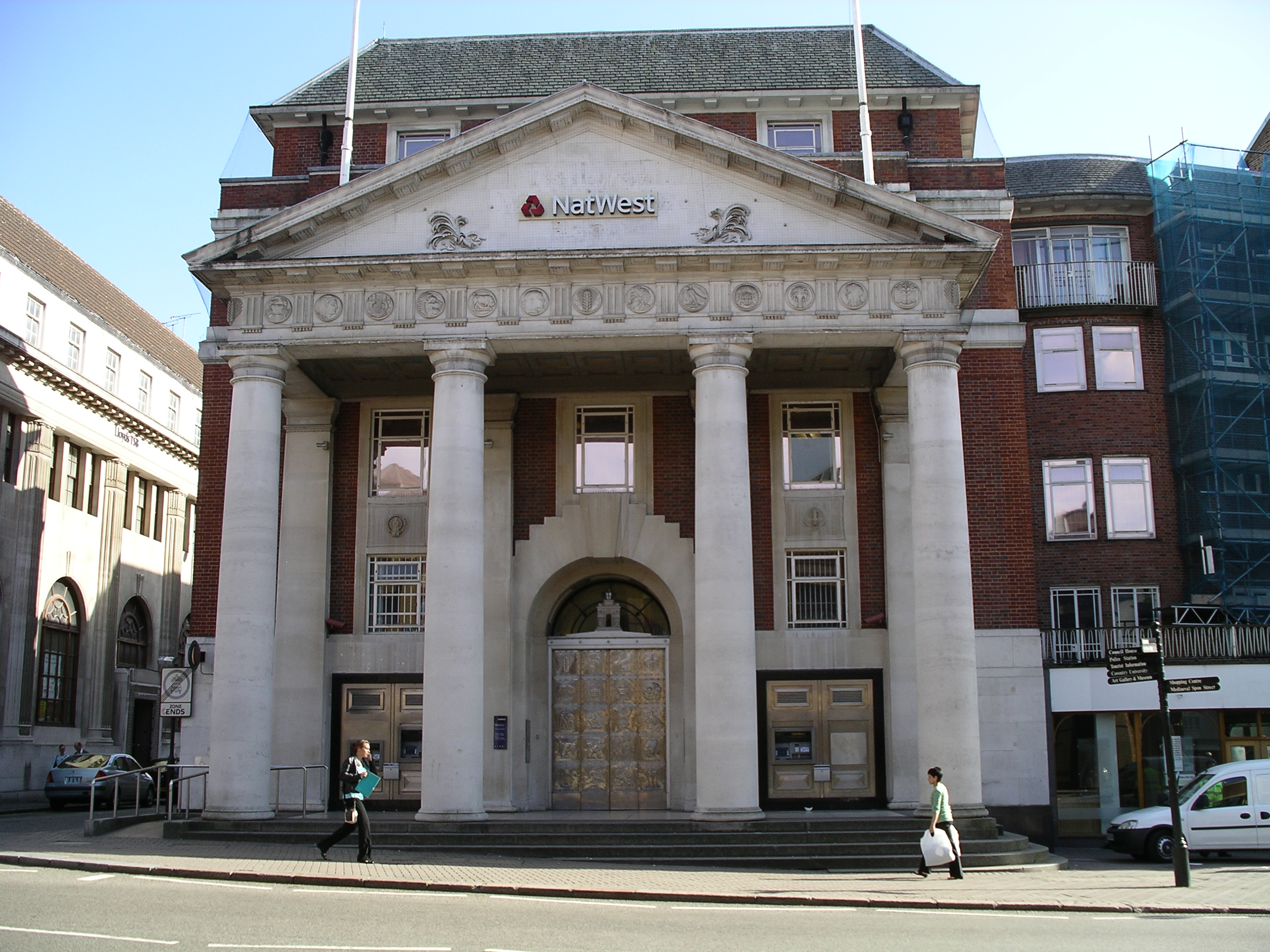 Photo of the Nat West Bank in Coventry City Centre, England.